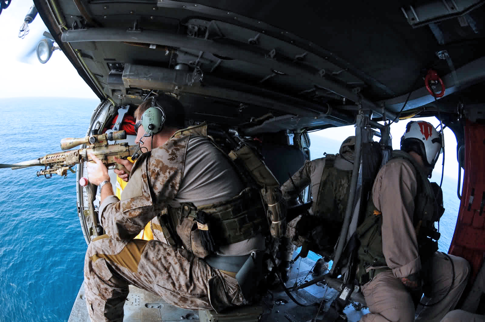 Navy Seal in a helicopter with a M110